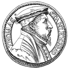 Woodcut image of medal by Steven van Herwijk. Obverse: Bust of Thomas Stanley, Under-Treasurer of the Mint, facing right, bonneted, in cloak with stiff collar, puffed sleeves, doublet buttoned close, and small ruff. Legend Thomas . Stanley . Mi . 50. Stops, lozenges. On truncation, Ste. H. From Hawkins, Edward, Medallic illustrations of the history of Great Britain and Ireland to the death of George II. Volume I. Edited by Augustus W. Franks & Herbert Appold Grueber The British Museum, 1885.